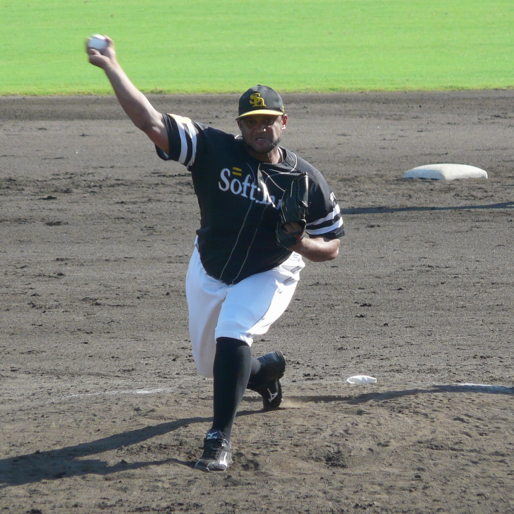 SH-Angel-Castro20120919